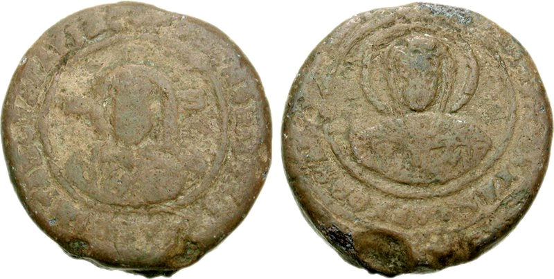 Boris-Mihail. Knyaz, 852-889. Facing bust of Christ Pantokrator / Facing bust of Theotokos.